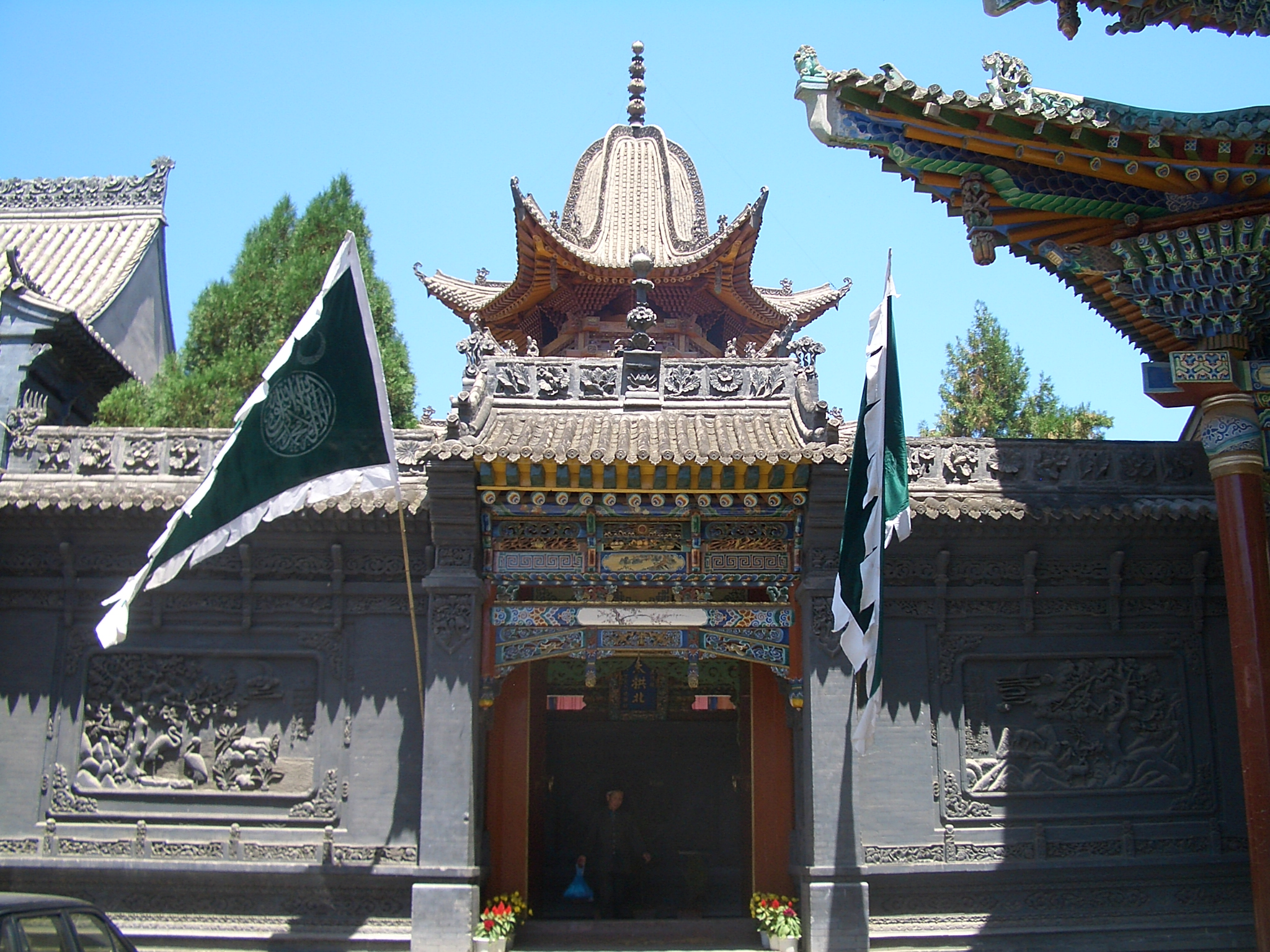 Yu Baba Gongbei on the north side of Linxia City